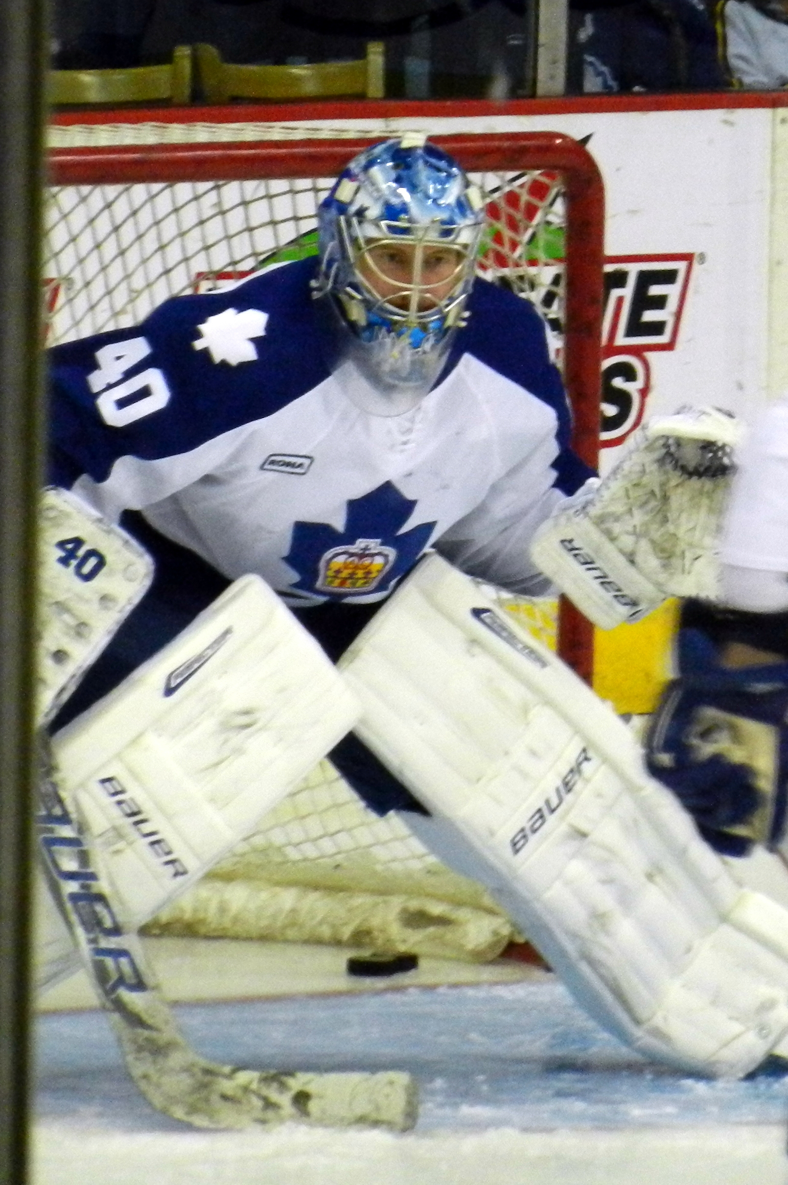 Jussi Rynnas warming up for the American Hockey League's Toronto Marlies